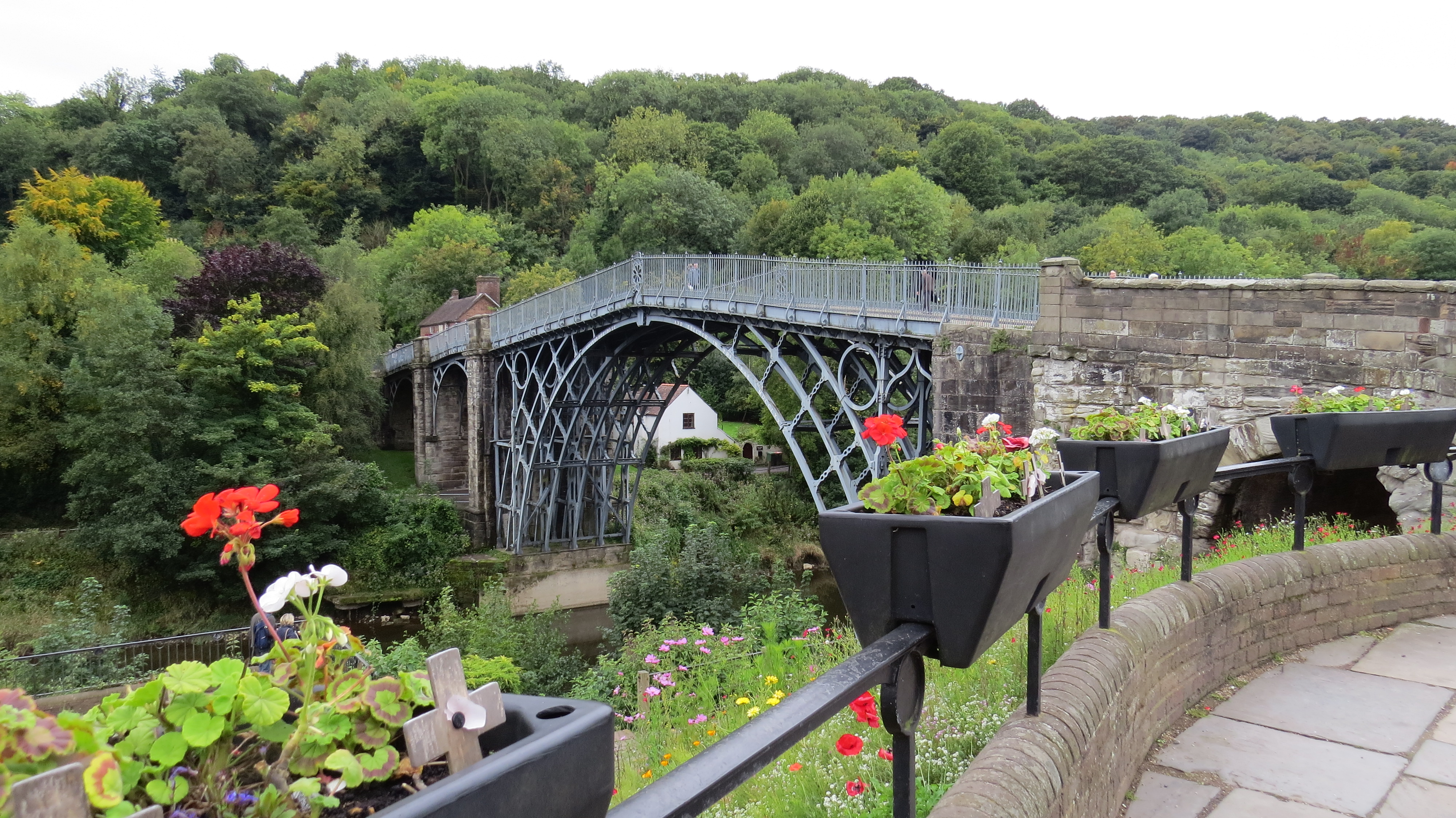 The Unesco World Heritage site of Ironbridge, home to the Worlds first bridge made of cast Iron.